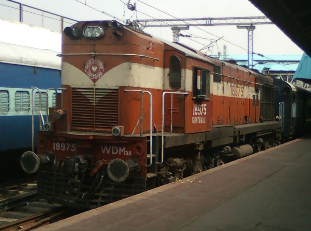 Kurnool Intercity Express at Secunderabad with a Guntakal shed WDM3A locomotive Loco road number: #18975 Loco class: WDM3A Specialised in: Passenger traffic Loco shed: Guntakal (GTL)